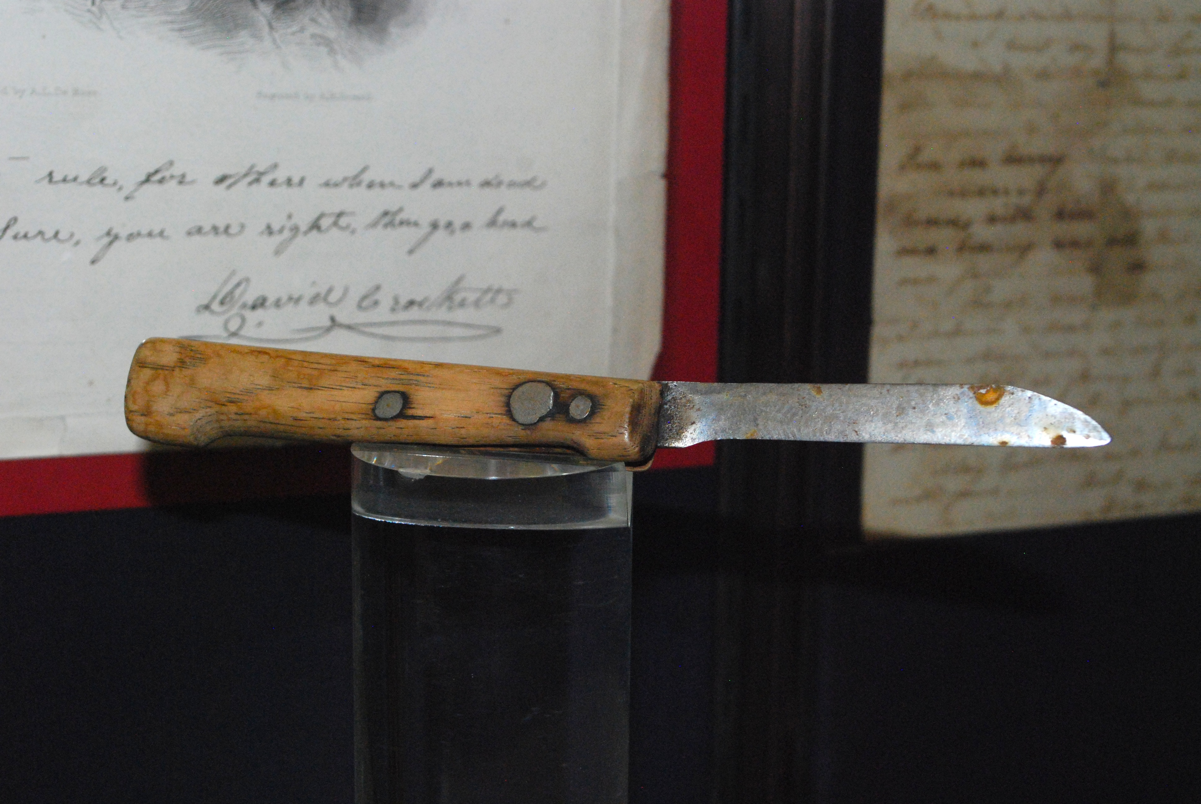 A knife formerly owned and used by Davy Crockett during the Battle of the Alamo on display in the San Jacinto Museum of History at the San Jacinto Battleground State Historic Site in Harris County, Texas. According to the museum, after Crockett's death during the battle, Andrea Castañón Villanueva (also known as "Madam Candelaria") took the knife, and later gave it to Juan L. Lynn, who then gave it to Sion Record Bostick. Bostick, himself, fought during the Texas Revolution in the Battle of San Jacinto.